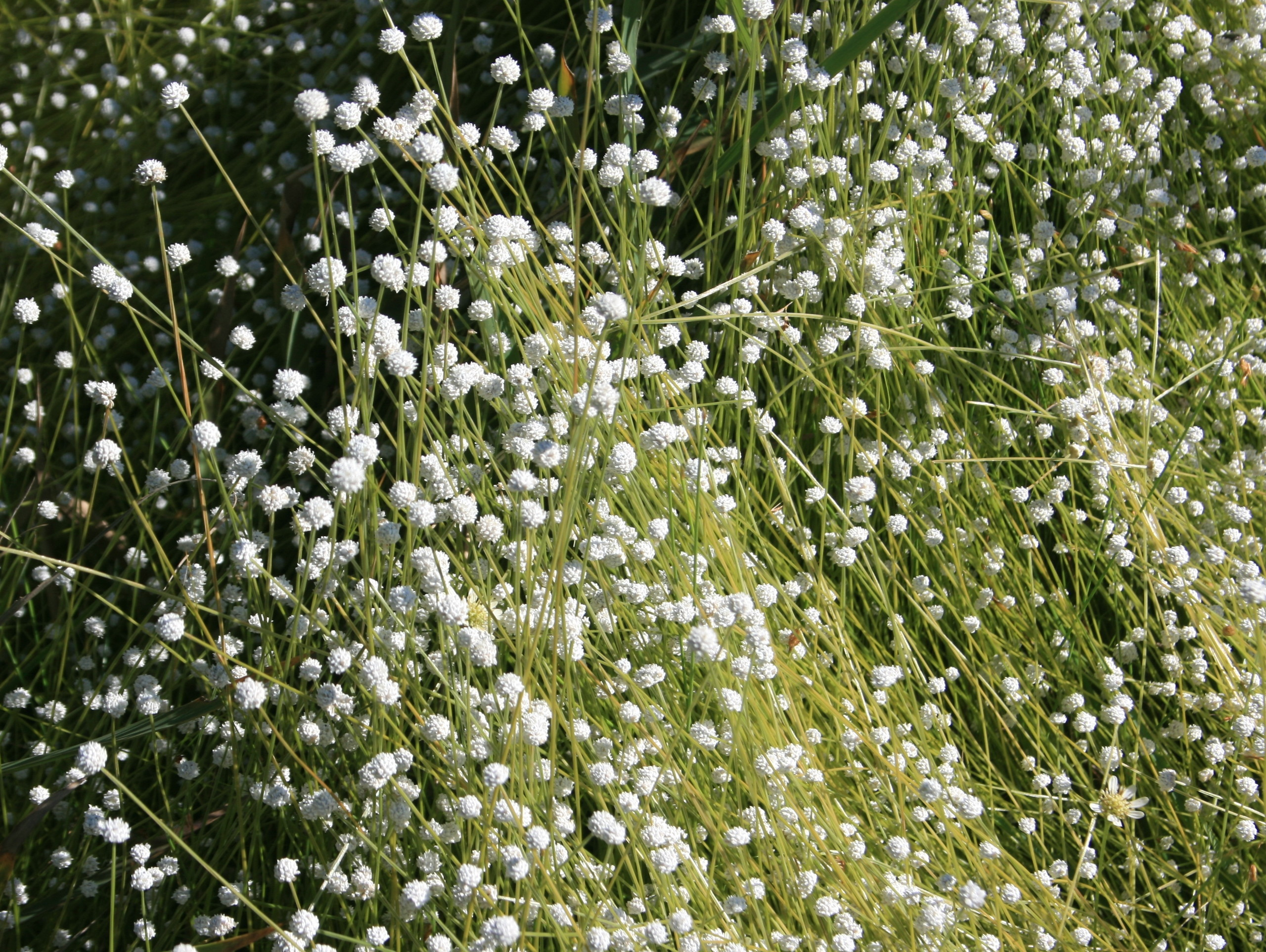 Eriocaulon nudicuspe in Forest park of Aichi Prefecture